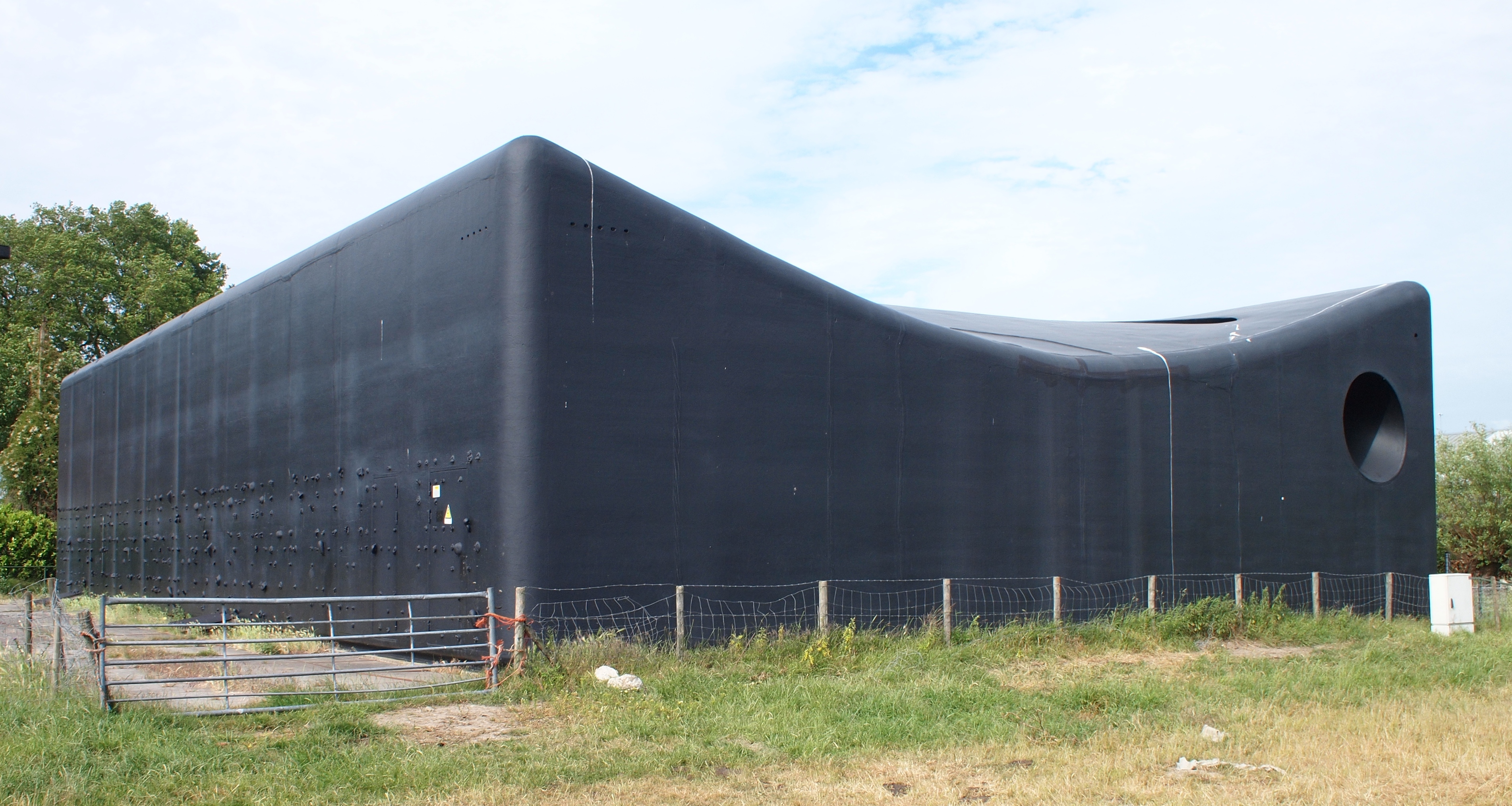 WOS8 in Utrecht by NL Architects